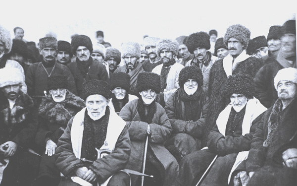 Delegats or the Congress of proclaiming the Chechen autonomous region. The 15th of January 1923